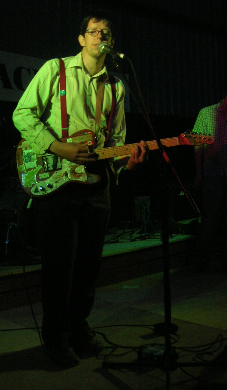 Darren Hayman performing with the Secondary Modern